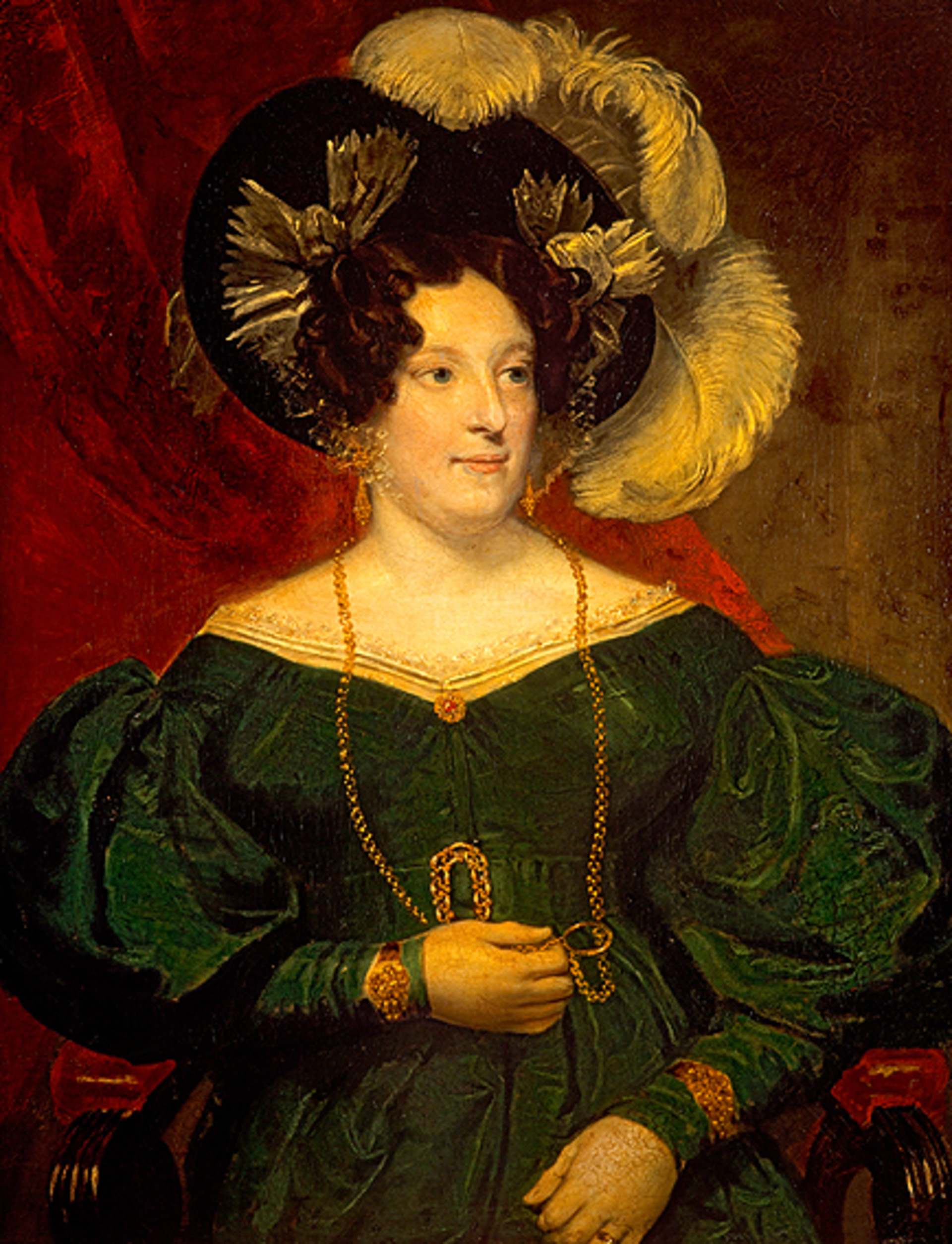 Queen Caroline; Princess Caroline Amelia Elizabeth, 1768 - 1821. Daughter of Charles, Duke of Brunswick-Wolfenbüttel; Queen of George IV